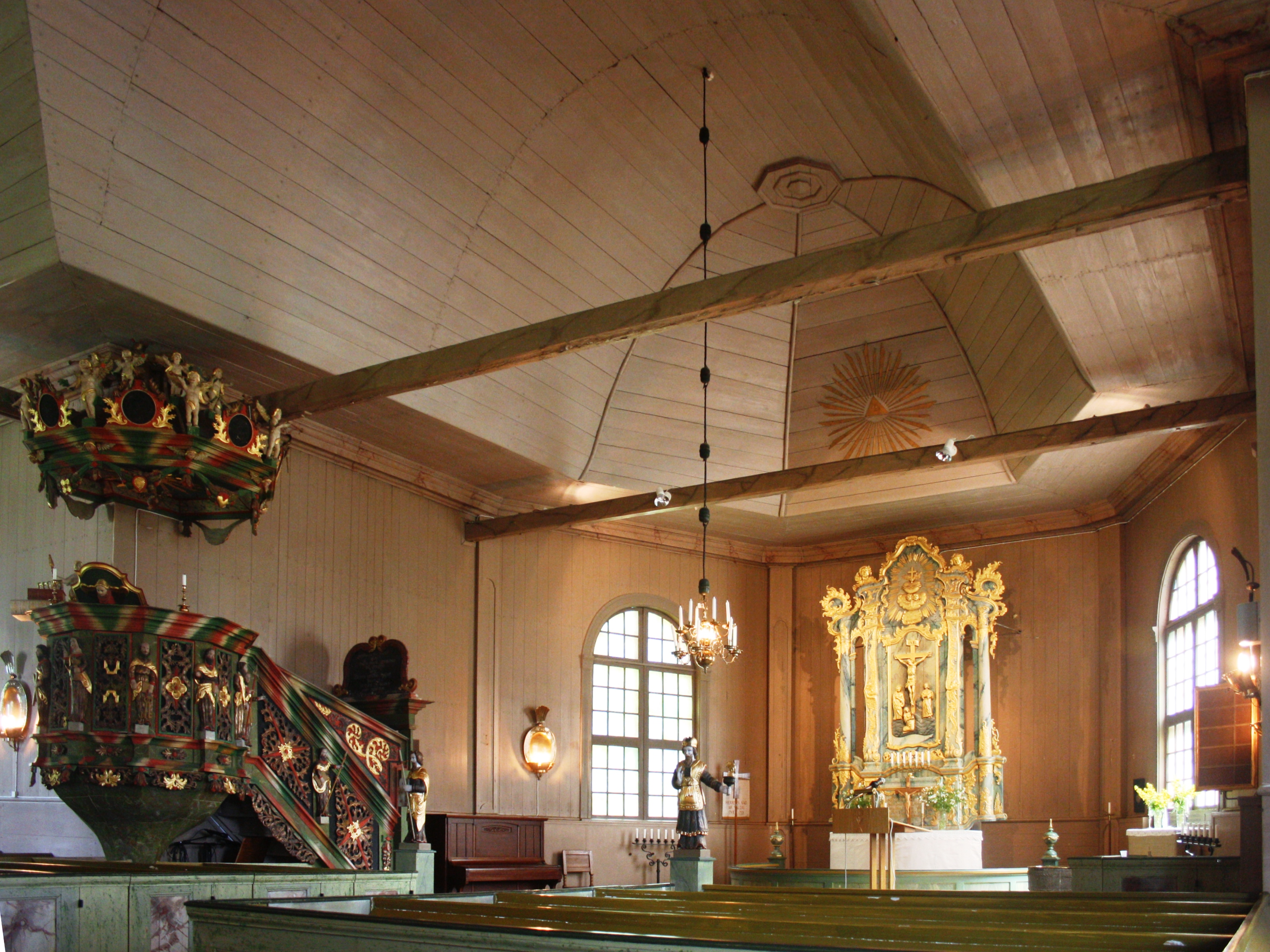 Nordmark, Filipstad municipality, Sweden. Church towards East.